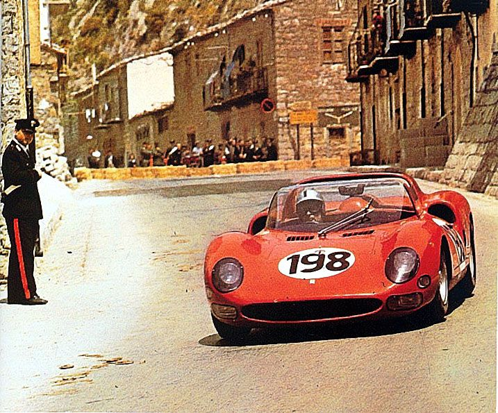 Targa Florio race on 9 May 1965, entry #198, and WINNER is the 1965 Ferrari 330 P2 s/n 0828 driven by Nino Vaccarella and Lorenzo Bandini.[1]